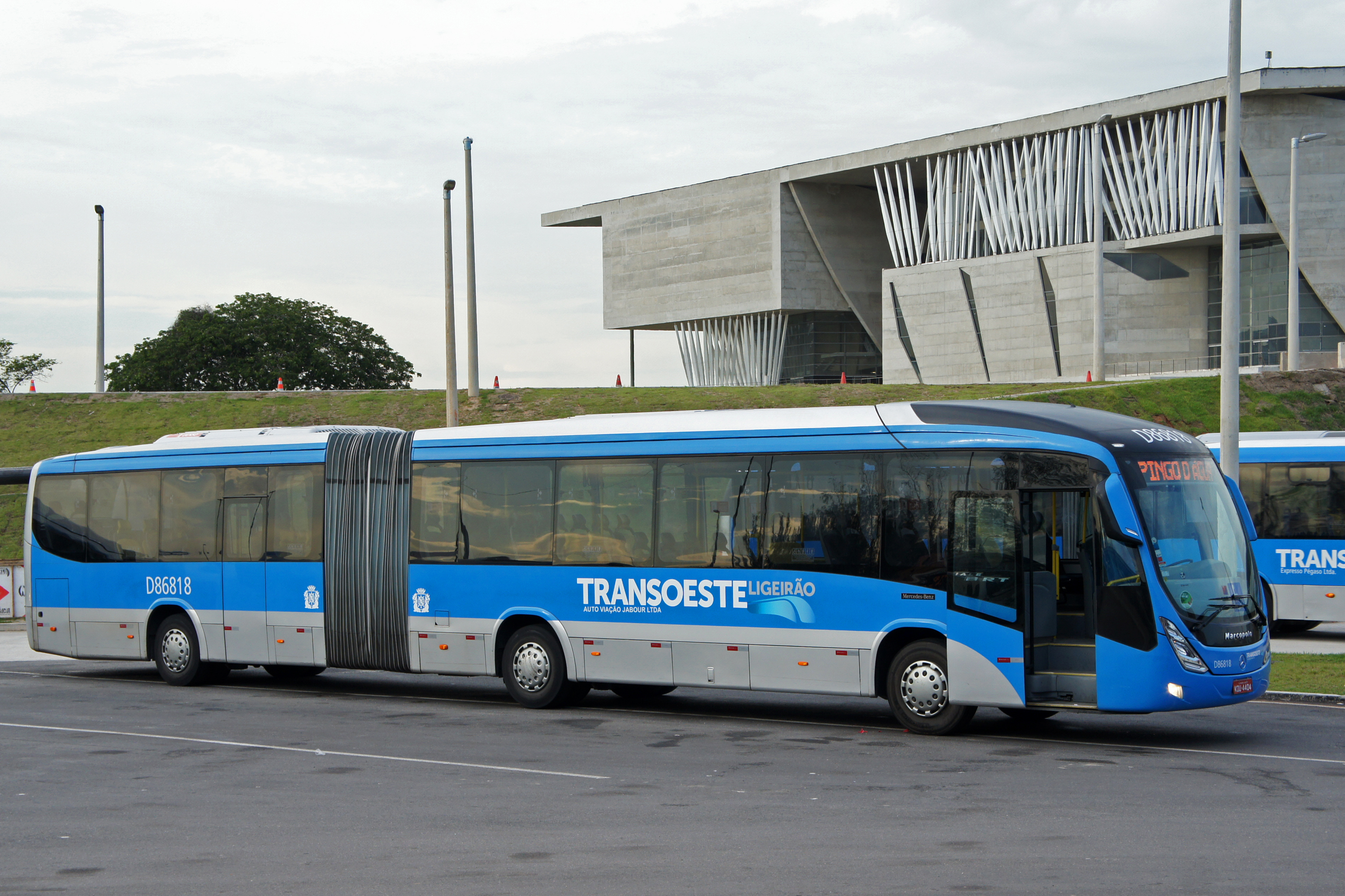 BRT TransOeste articulated bus at Terminal Alvorada, Barra de Tijuca, Rio de Janeiro